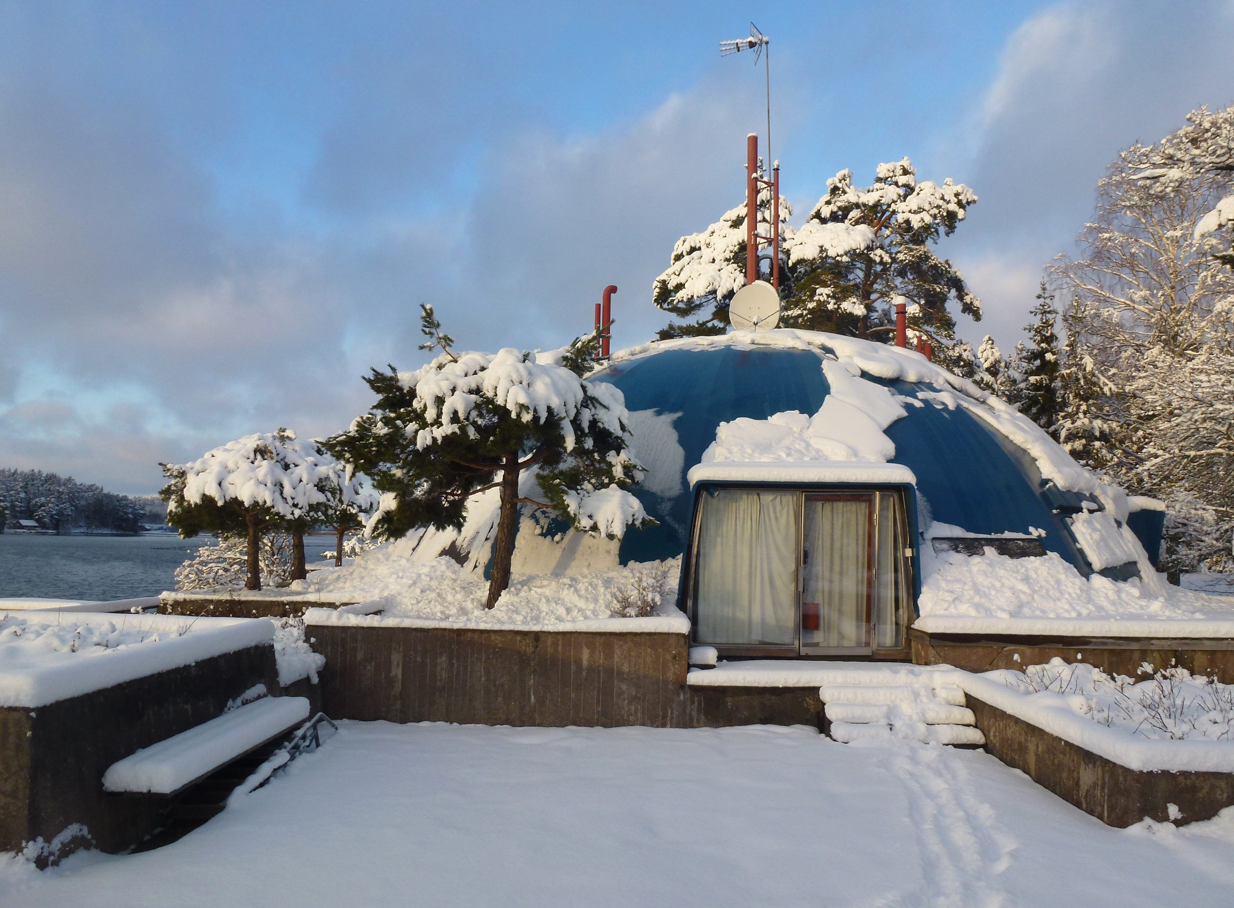 Villa Engström "Kupolvillan", arkitekt Ralph Erskine